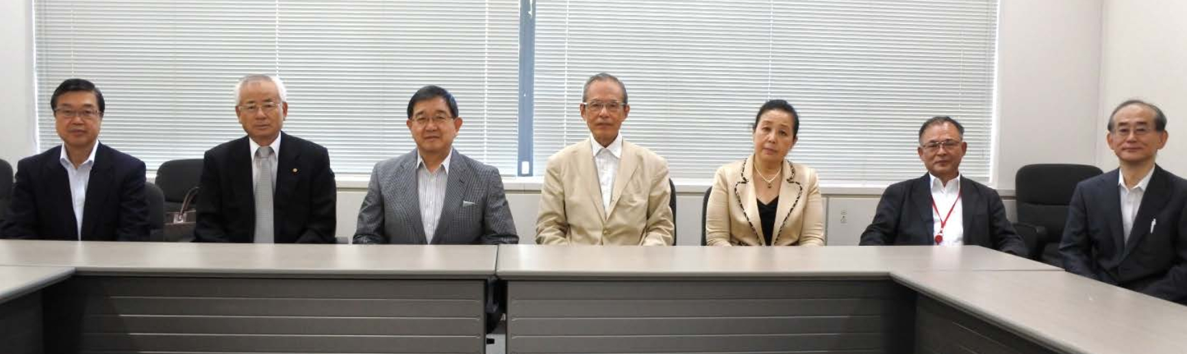 Osamu Akiyama, Chairman of the Administrative Grievance Resolution Promotion Council, Ministry of Internal Affairs and Communications, Takeshi Erikawa, Katsuhisa Ono, Mitsuo Kobayakawa, Shigeru Takahashi, Kunihiro Matsuo and Masago Minami, Members of the Administrative Grievance Resolution Promotion Council, Ministry of Internal Affairs and Communications, posed for the photo on September, 2015.